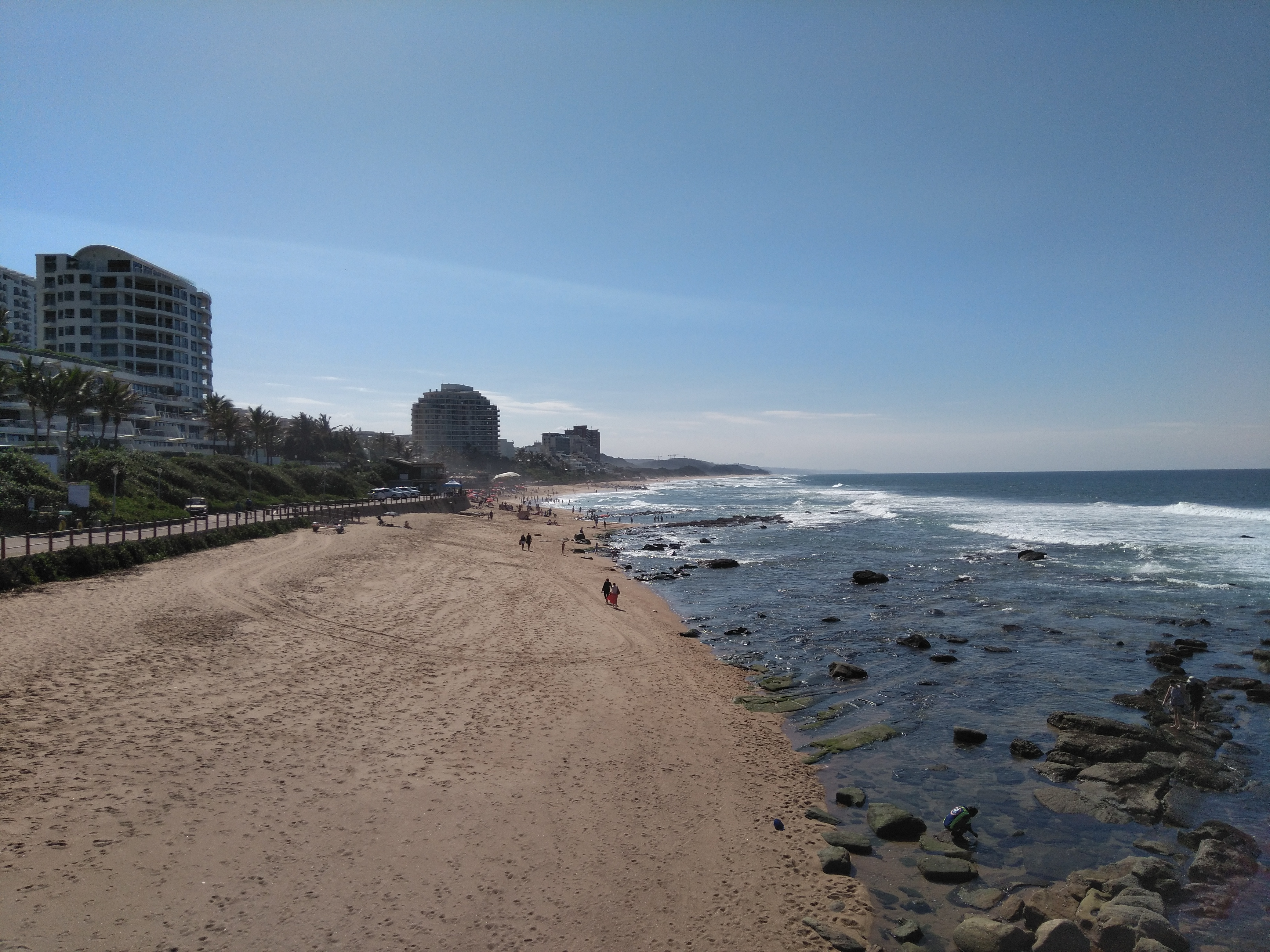 Umhlanga beach, Umhlanga, KZN, South Africa